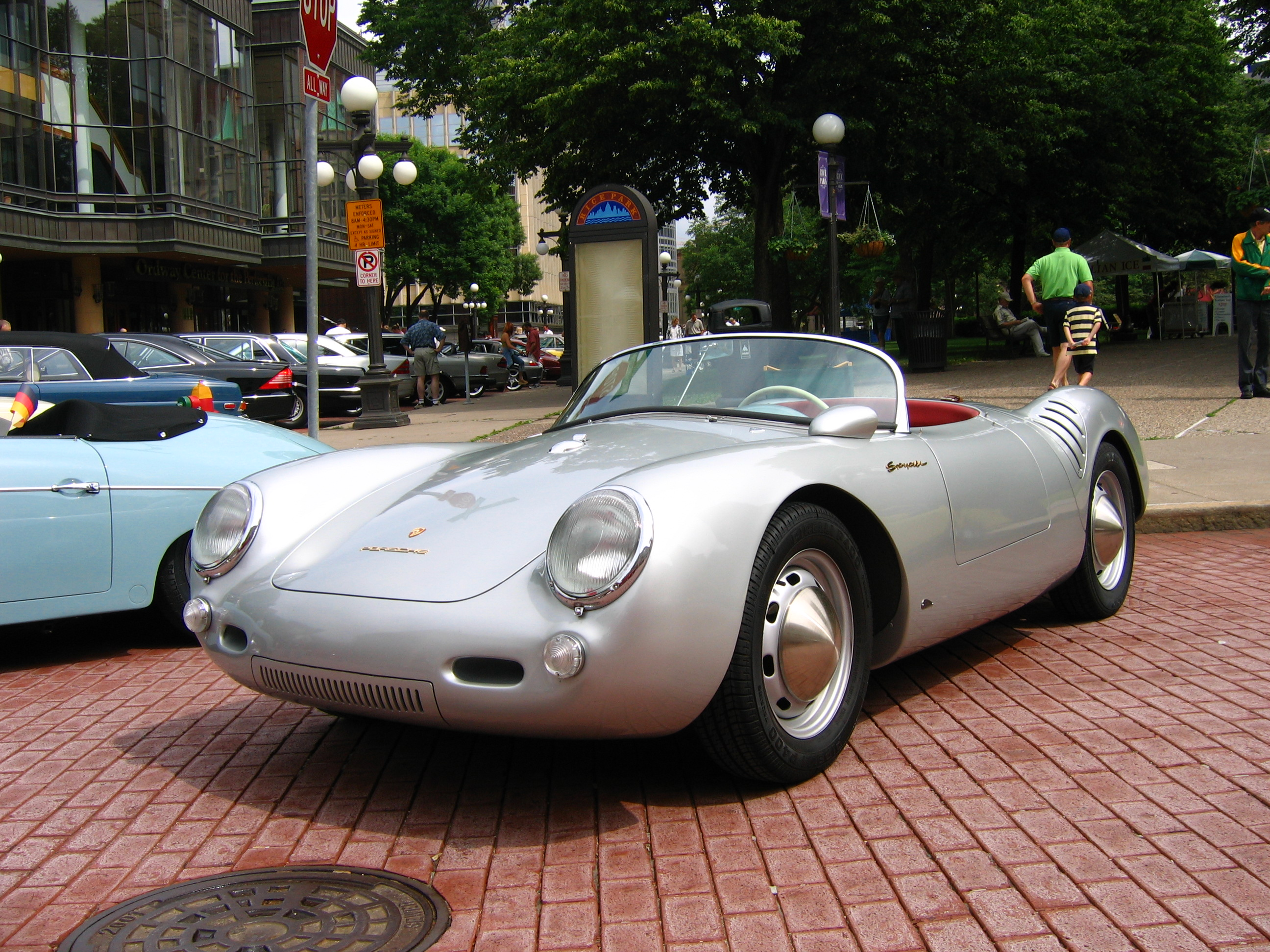 Volkswagen based Porsche 550 Spyder replica.porche